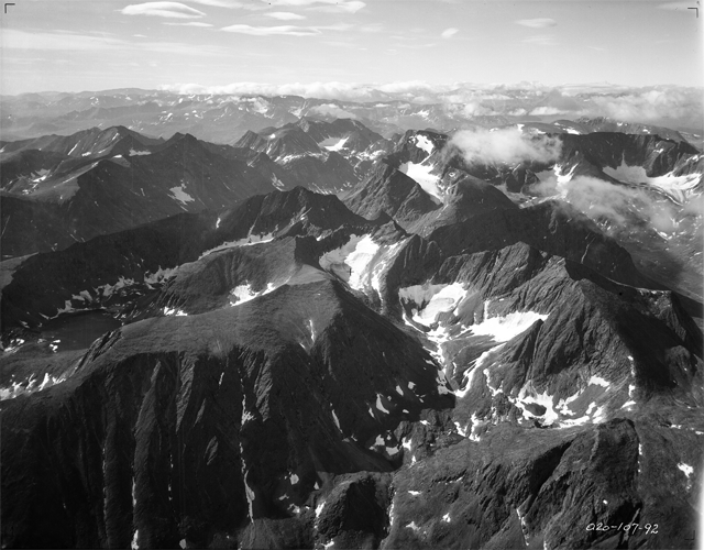 Fig. 65 - Looking southwest across the Four Peaks group of mountains which fills the foreground and middle distance. Note the maturely developed cirques, some of which are occupied by residual glaciers, and compare with the less advanced cirque cutting of the northern central range illustrated in Figure 81. Aug. 2, 1931.